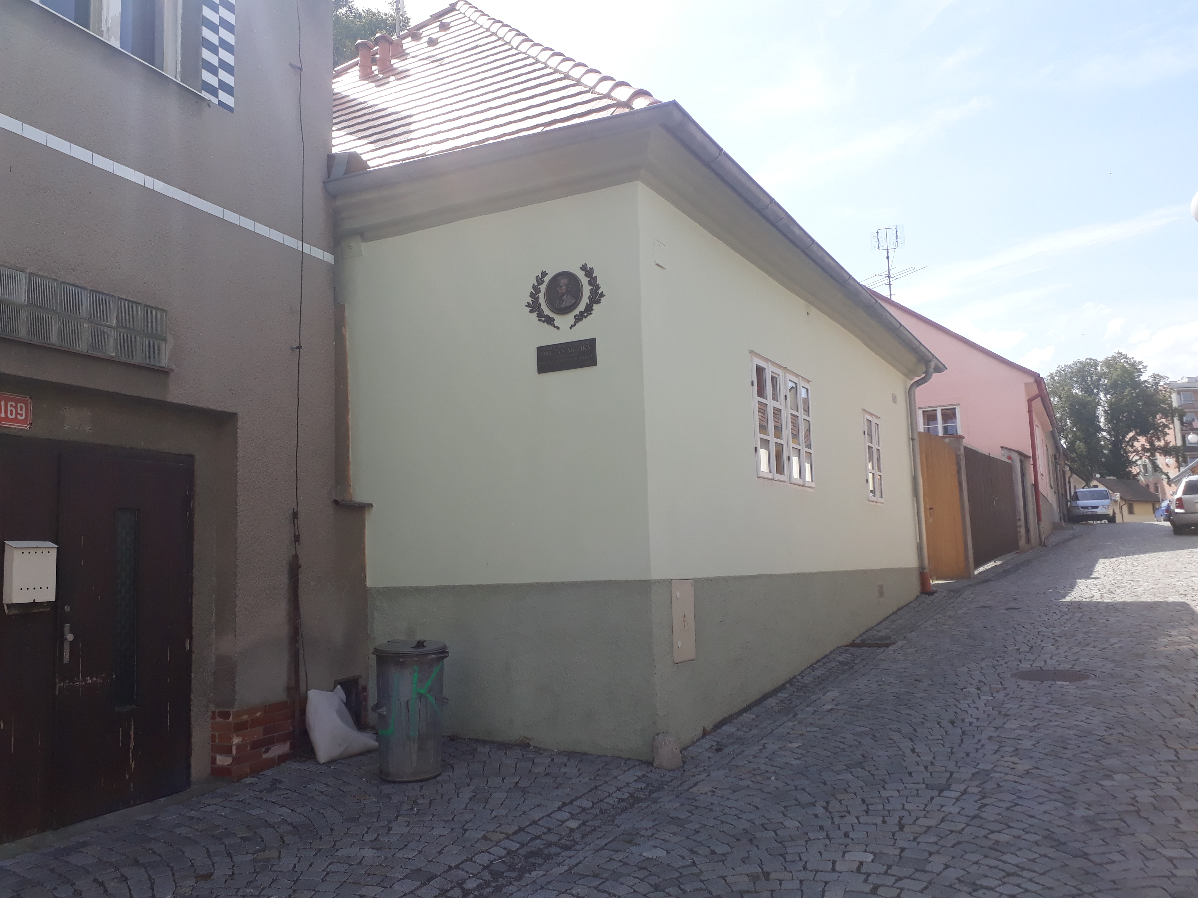 Birthplace of railway builder and businessman Jan Muzika (1832-1882) in Březnice, Horní Valy 167, Příbram District.